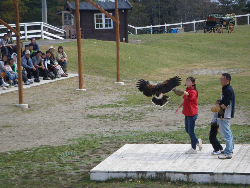 Nasu Animal Kingdom is a zoo in Nasu, Tochigi, Japan.